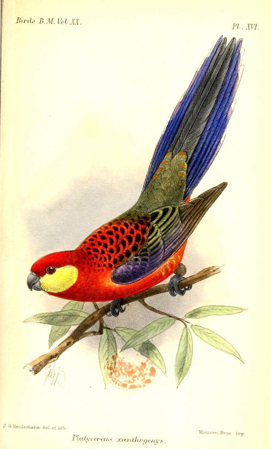 Platycercus xanthogenys = Platycercus icterotis, Western Rosella